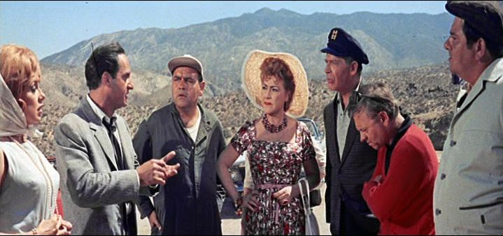 It's a Mad, Mad, Mad, Mad World. L-R: Dorothy Provine, Sid Caesar, Jonathan Winters, Ethel Merman, Milton Berle, Mickey Rooney and Buddy Hackett